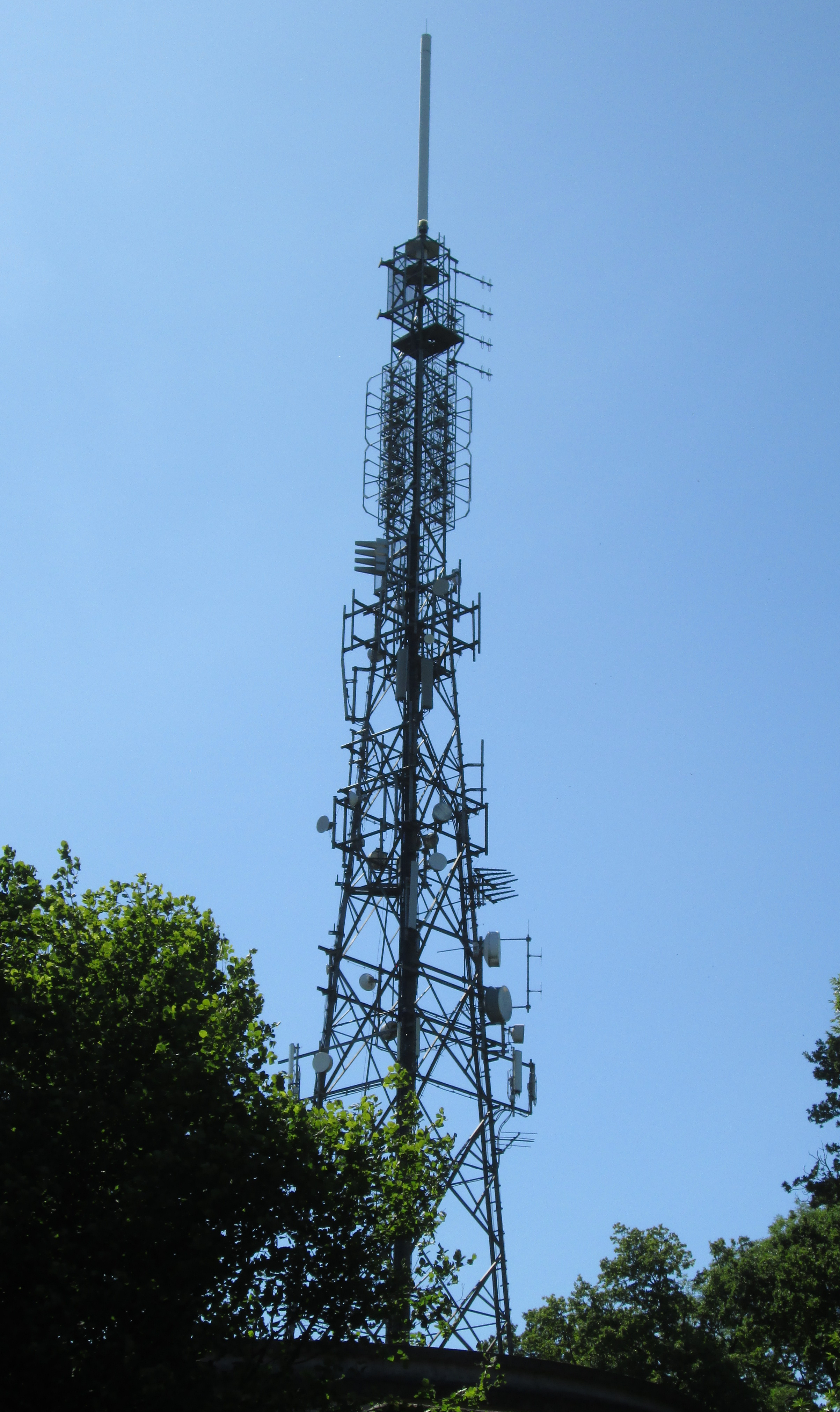 Reigate Broadcast Tower June 2018